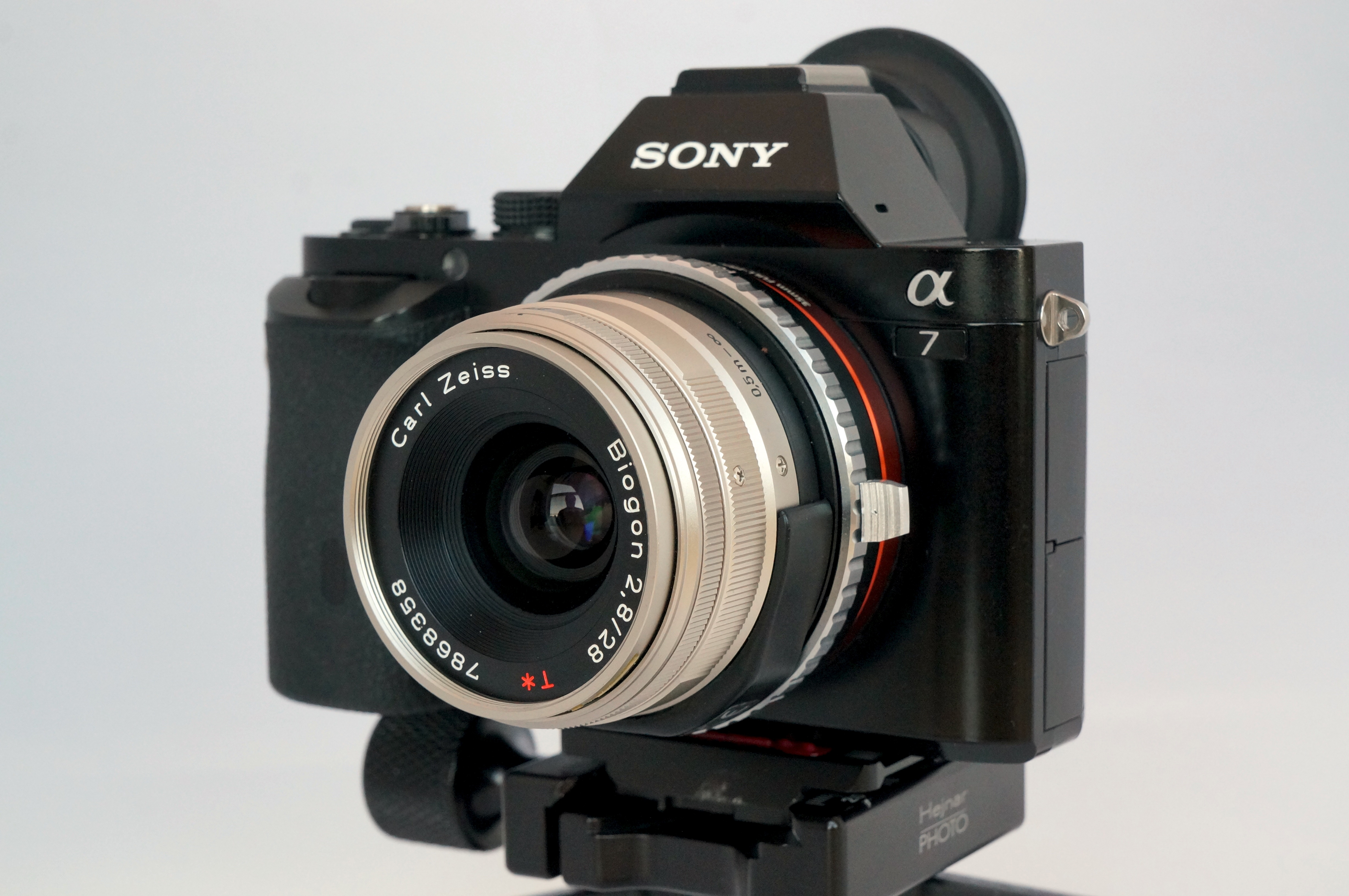 Sony A7 with Contax G 28mm F2.8 Zeiss lens.